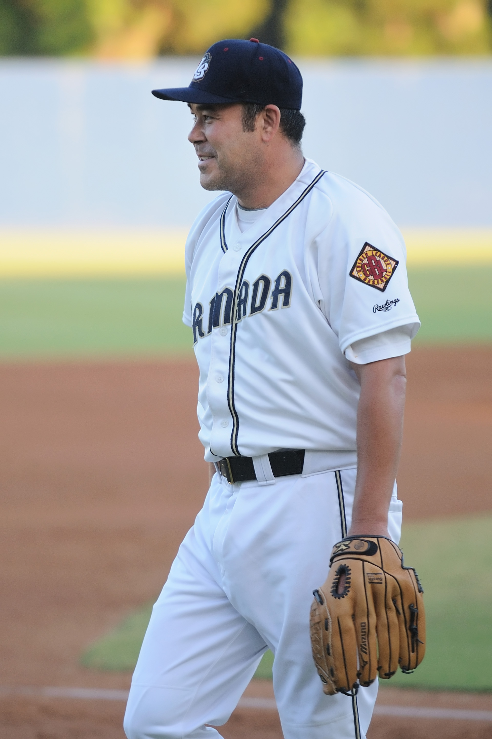 Hideki Irabu in 2009